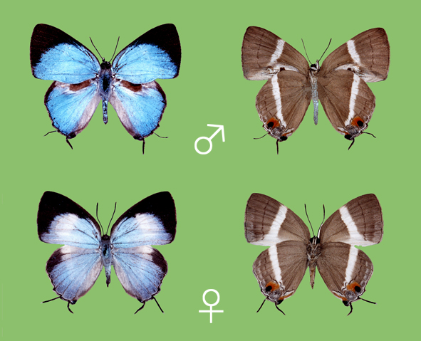 Dacalana kurosawai, male and female